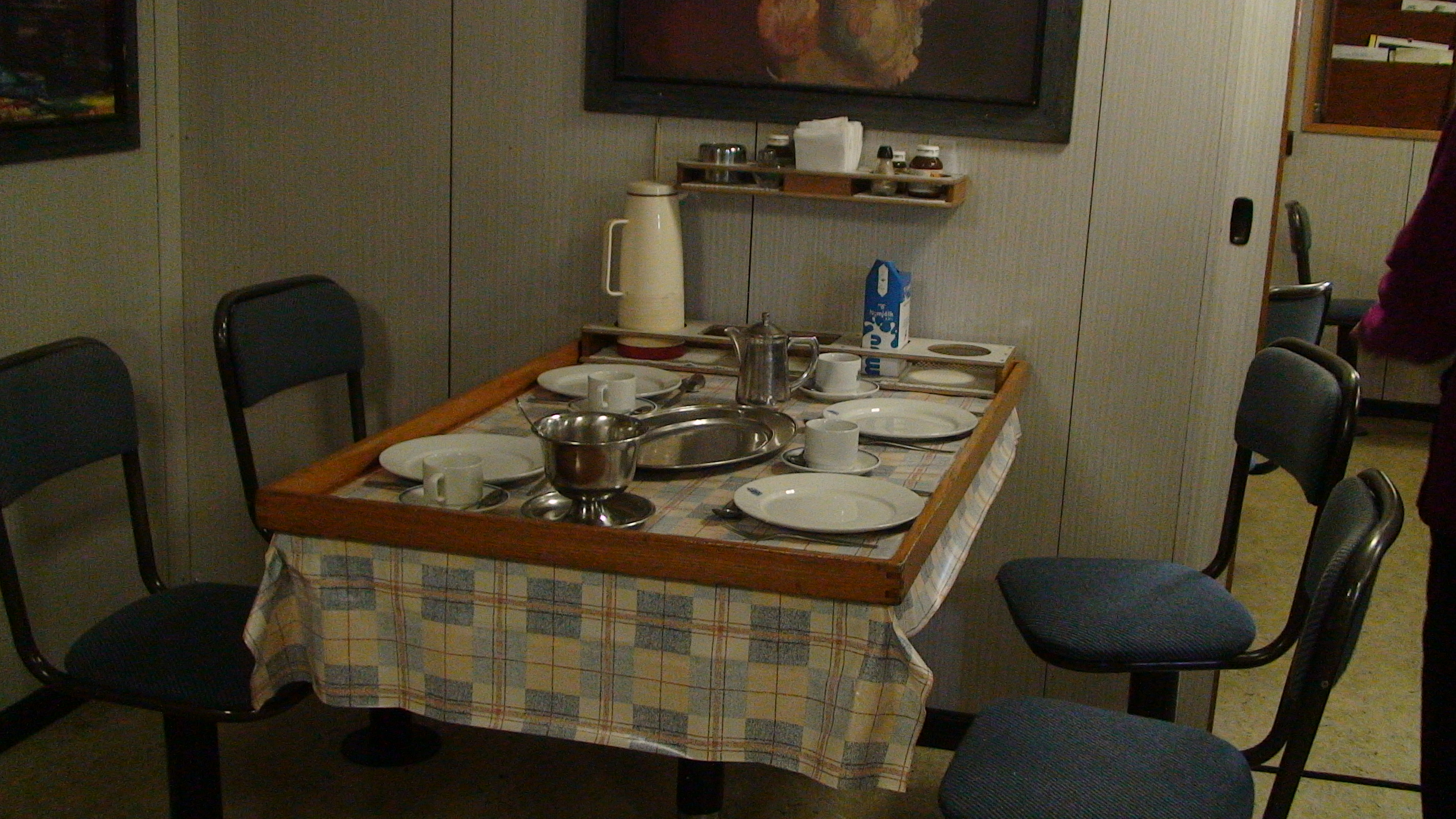 Dining arrangements, Odinn coast guard ship